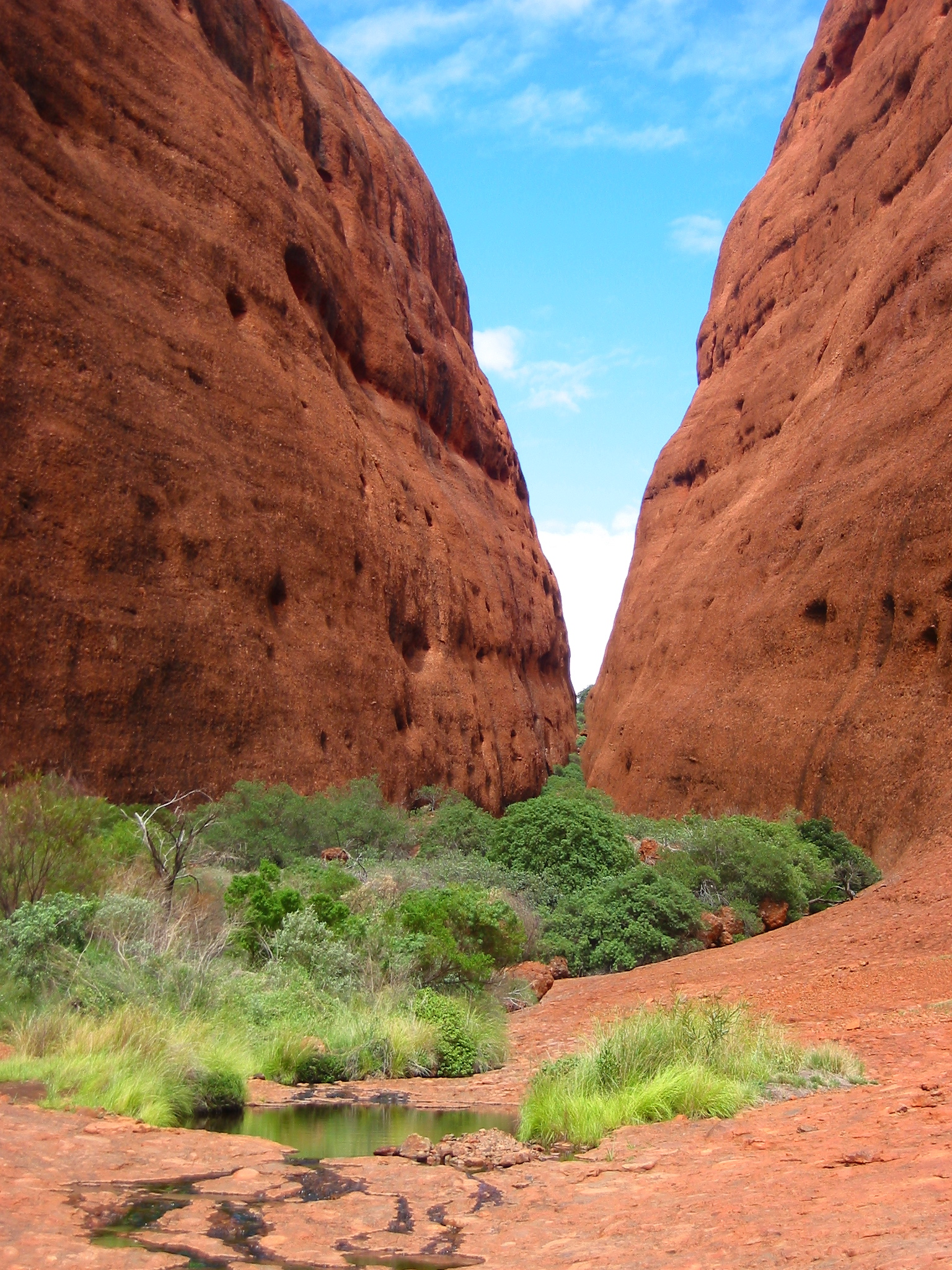 Photograph of a gap running between two of the thirty-six domes in the Kata Tjuta rock formation in Australia